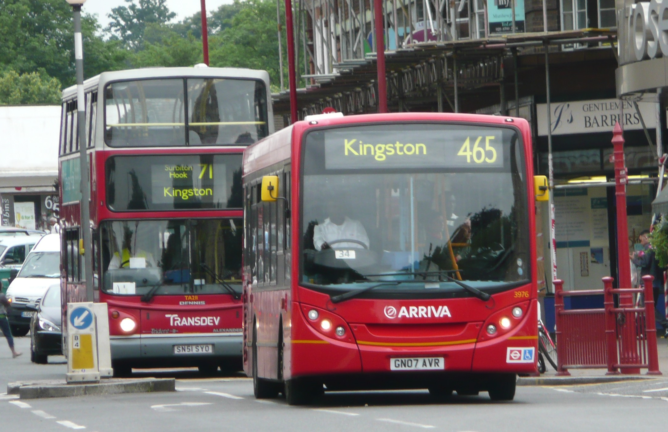 An Arriva Guildford & West Surrey Alexander Dennis Enviro 200 in Surbiton, on London Buses route 465